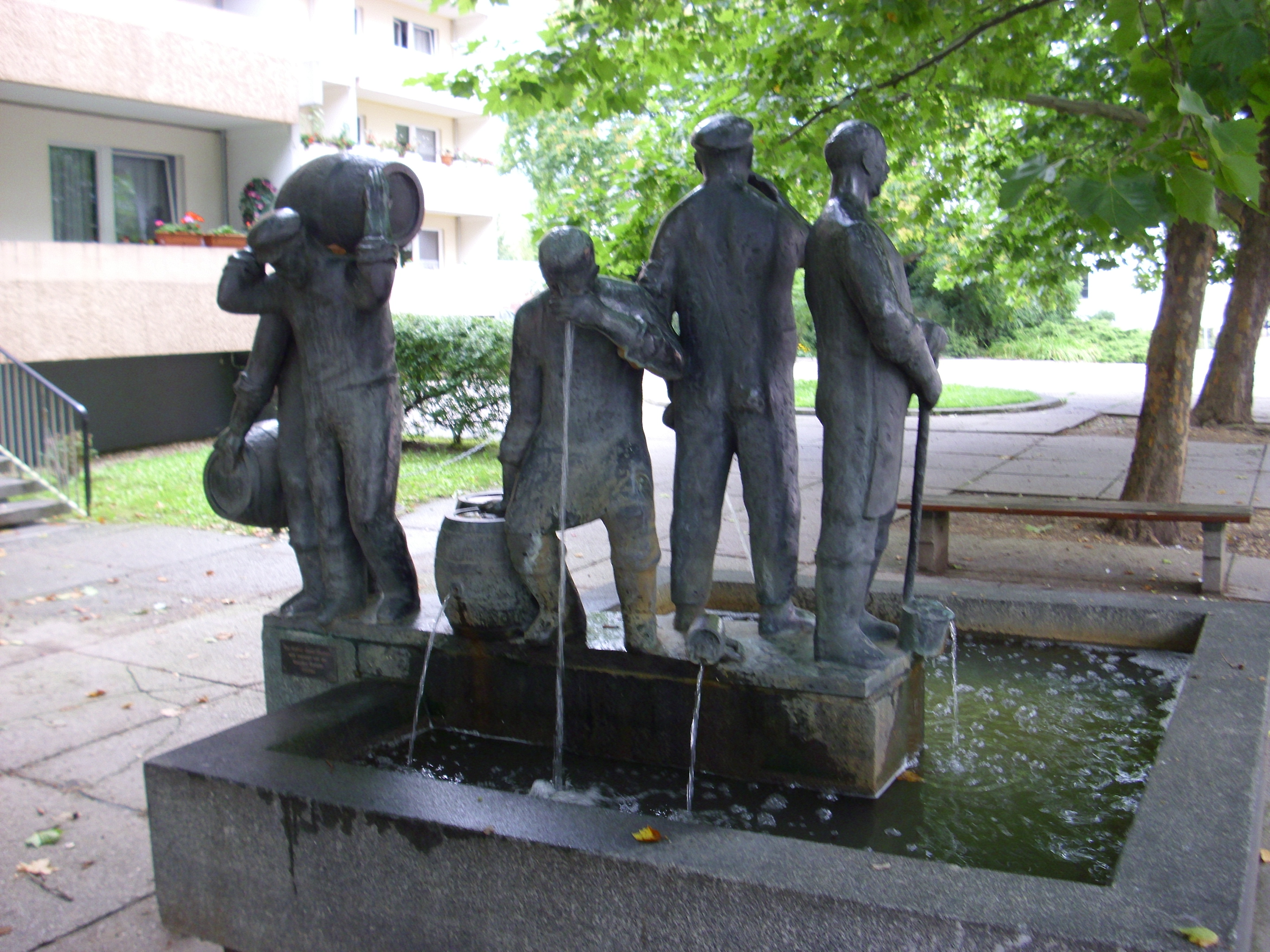 Fountain at Katharinenstraße in Zwickau, erected in 1984.